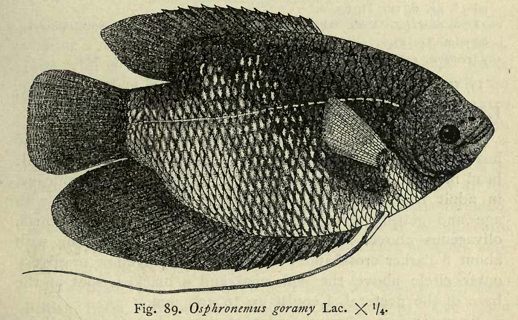 Osphronemus goramy. Illustration in Weber & de Beaufort. 1916. The Fishes of The Indo-Australian Archipelago.